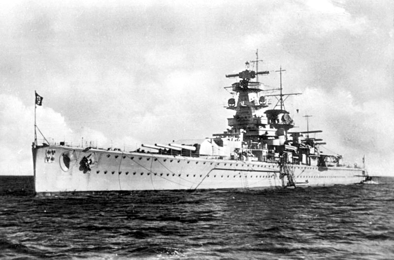 German cruiser Admiral Graf Spee